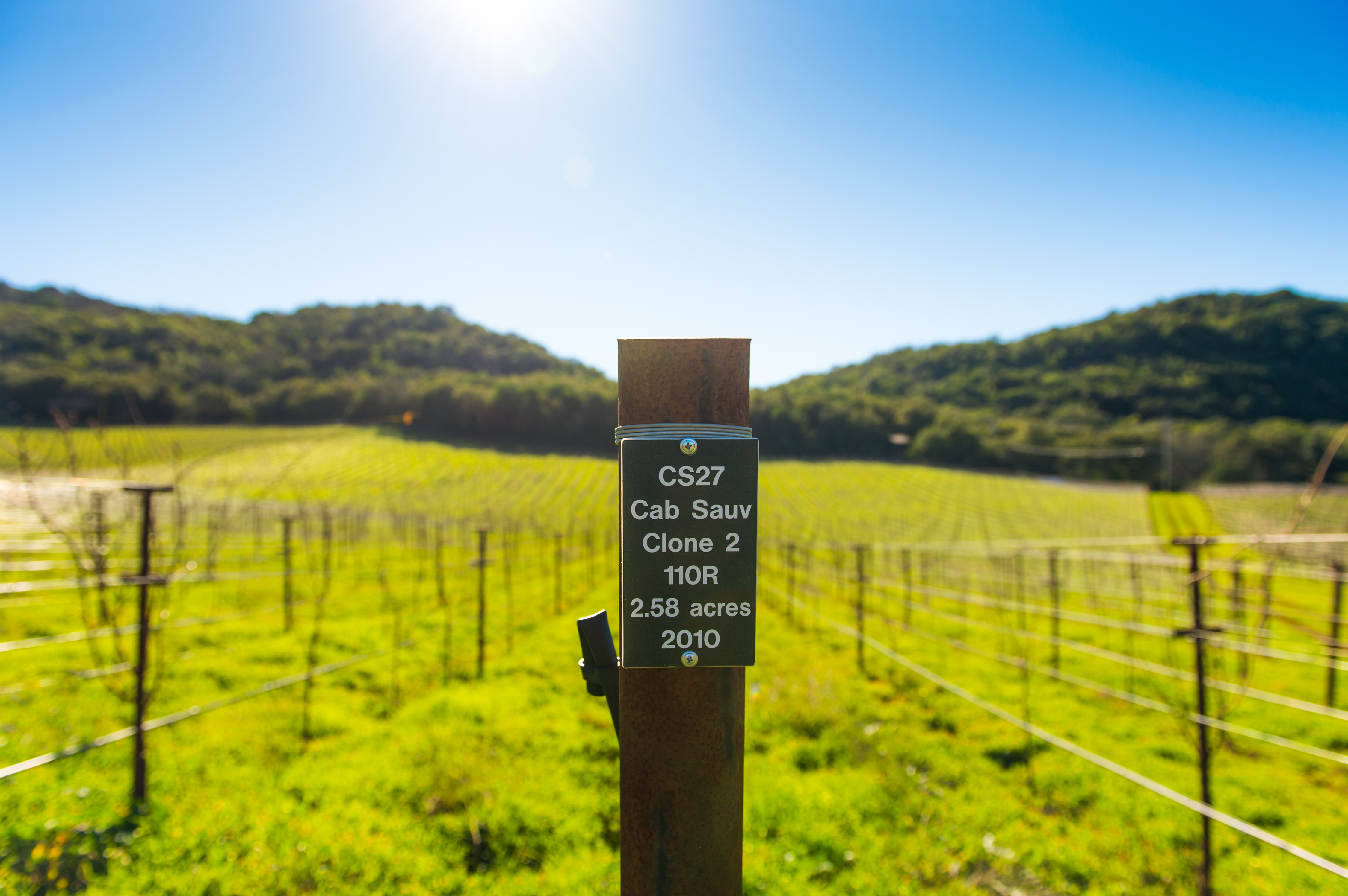 A vineyard sign in Napa Valley, California showing which particular clone of Cabernet Sauvignon was planted, the year and how many acres.